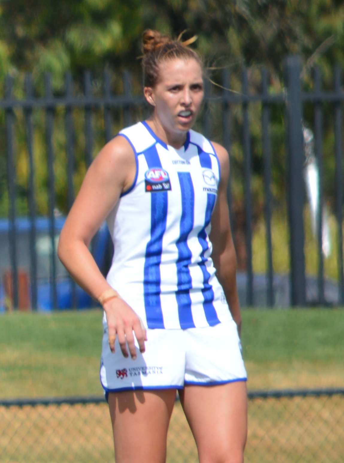 Emma King with North Melbourne during a pre-season match in January 2019.